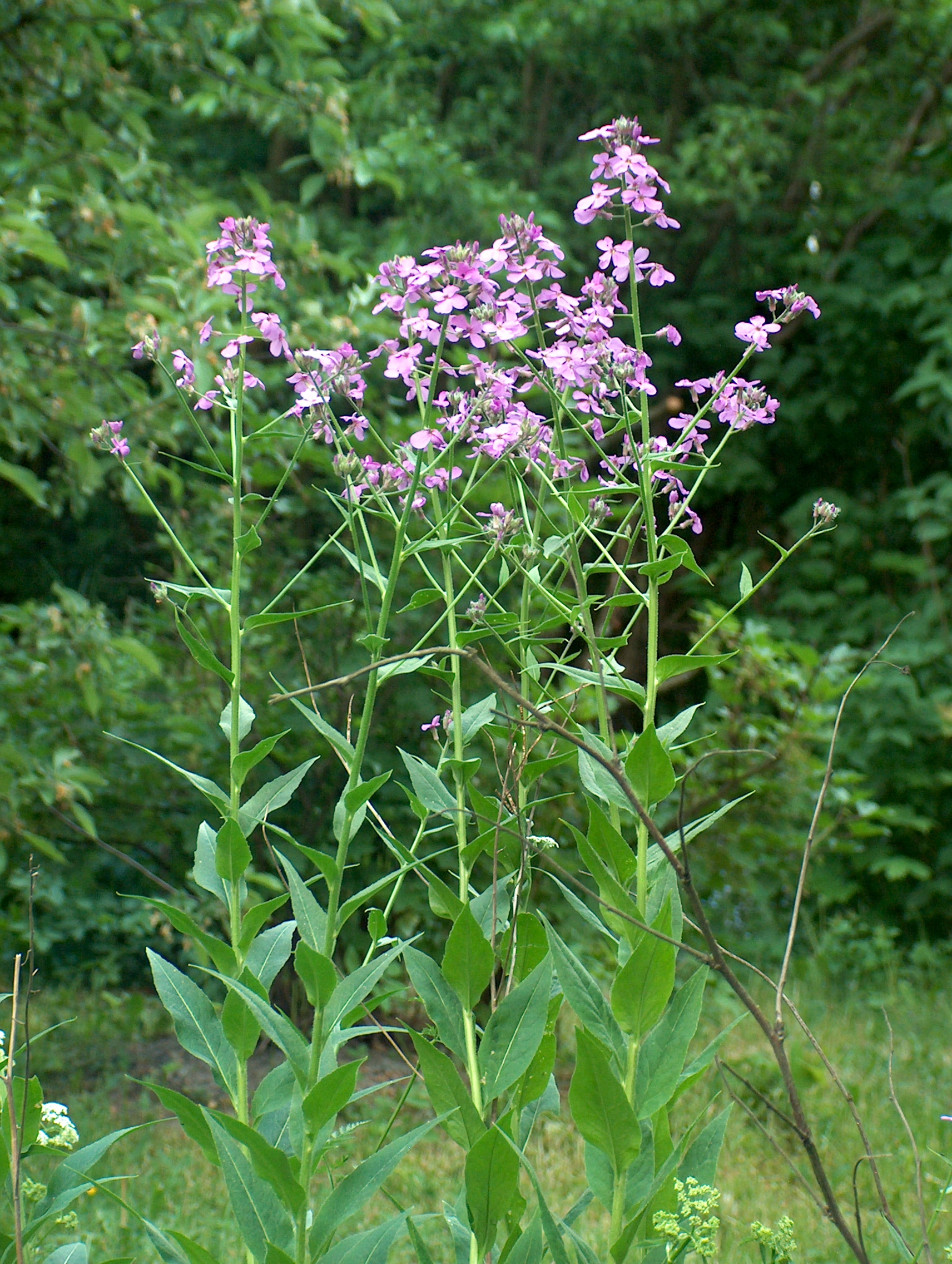 Dame's rocket (Hesperis matronalis) - Kerava, Finland